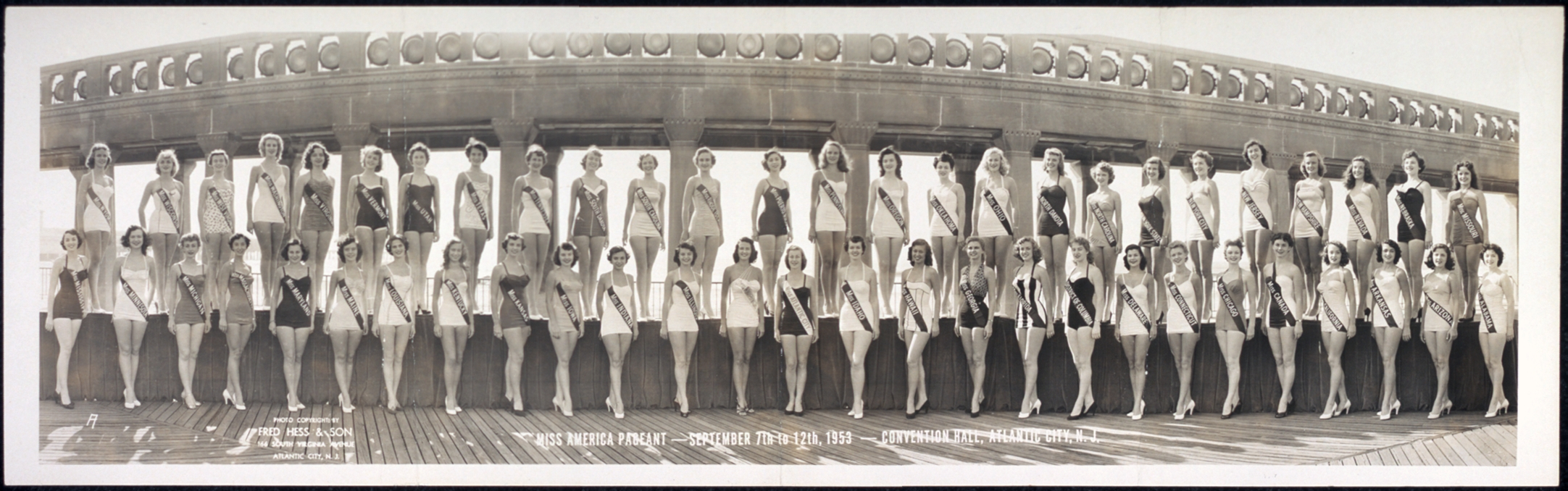 Contestants line up in swimsuits at the Miss America pageant, September 7th to 12th, 1953, Convention Hall, Atlantic City, N.J.